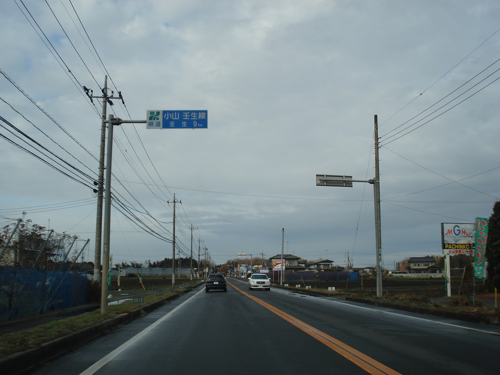 The Tochigi Prefectural Road Route 18 in Higashishimada, Oyama City